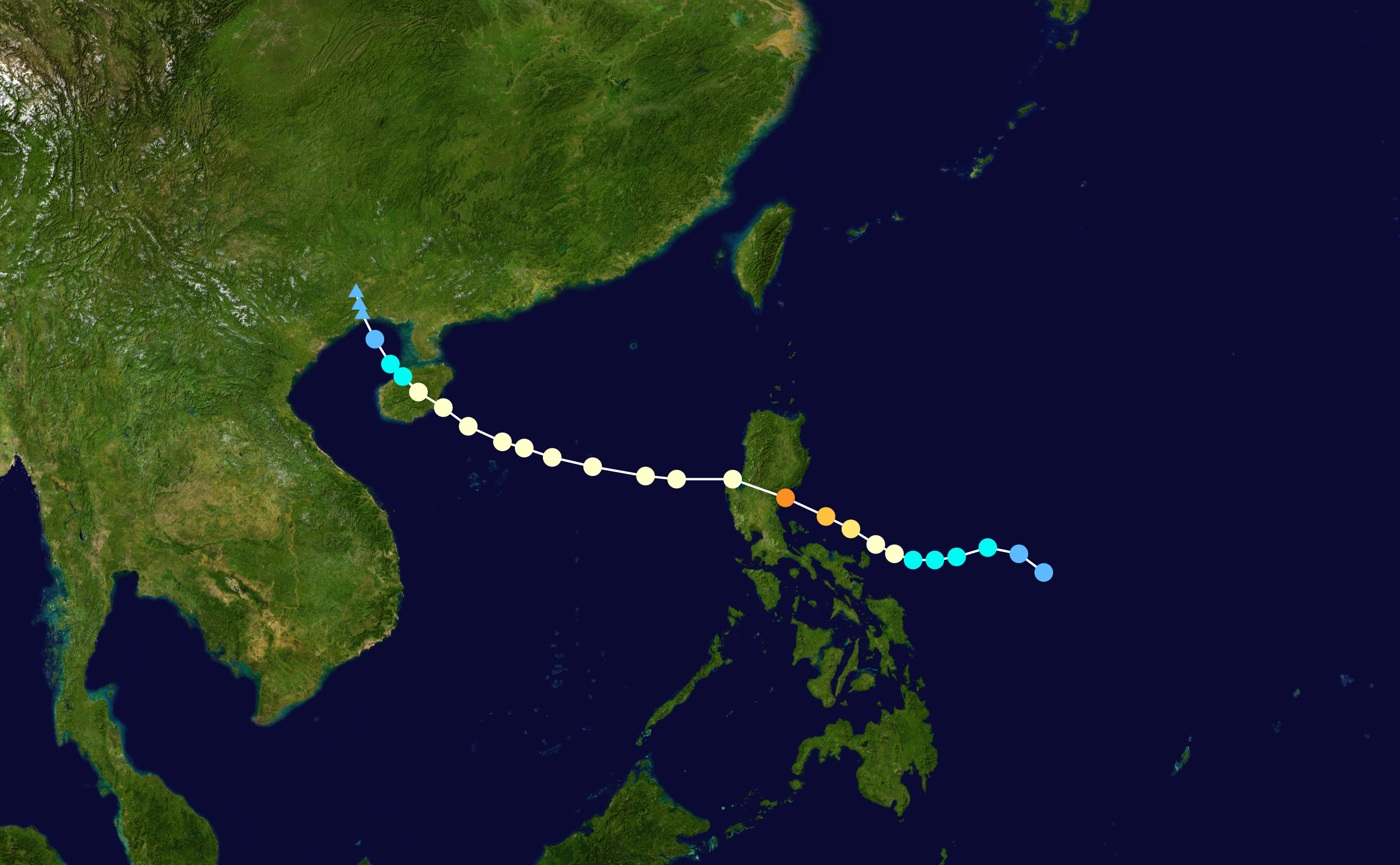 Track map of Typhoon Sarika of the 2016 Pacific typhoon season. The points show the location of the storm at 6-hour intervals. The colour represents the storm's maximum sustained wind speeds as classified in the Saffir–Simpson scale (see below), and the shape of the data points represent the nature of the storm, according to the legend below. Saffir–Simpson scale Tropical depression≤38 mph≤62 km/h Category 3111–129 mph178–208 km/h Tropical storm39–73 mph63–118 km/h Category 4130–156 mph209–251 km/h Category 174–95 mph119–153 km/h Category 5≥157 mph≥252 km/h Category 296–110 mph154–177 km/h Unknown Storm type Tropical cyclone Subtropical cyclone Extratropical cyclone / Remnant low / Tropical disturbance / Monsoon depression